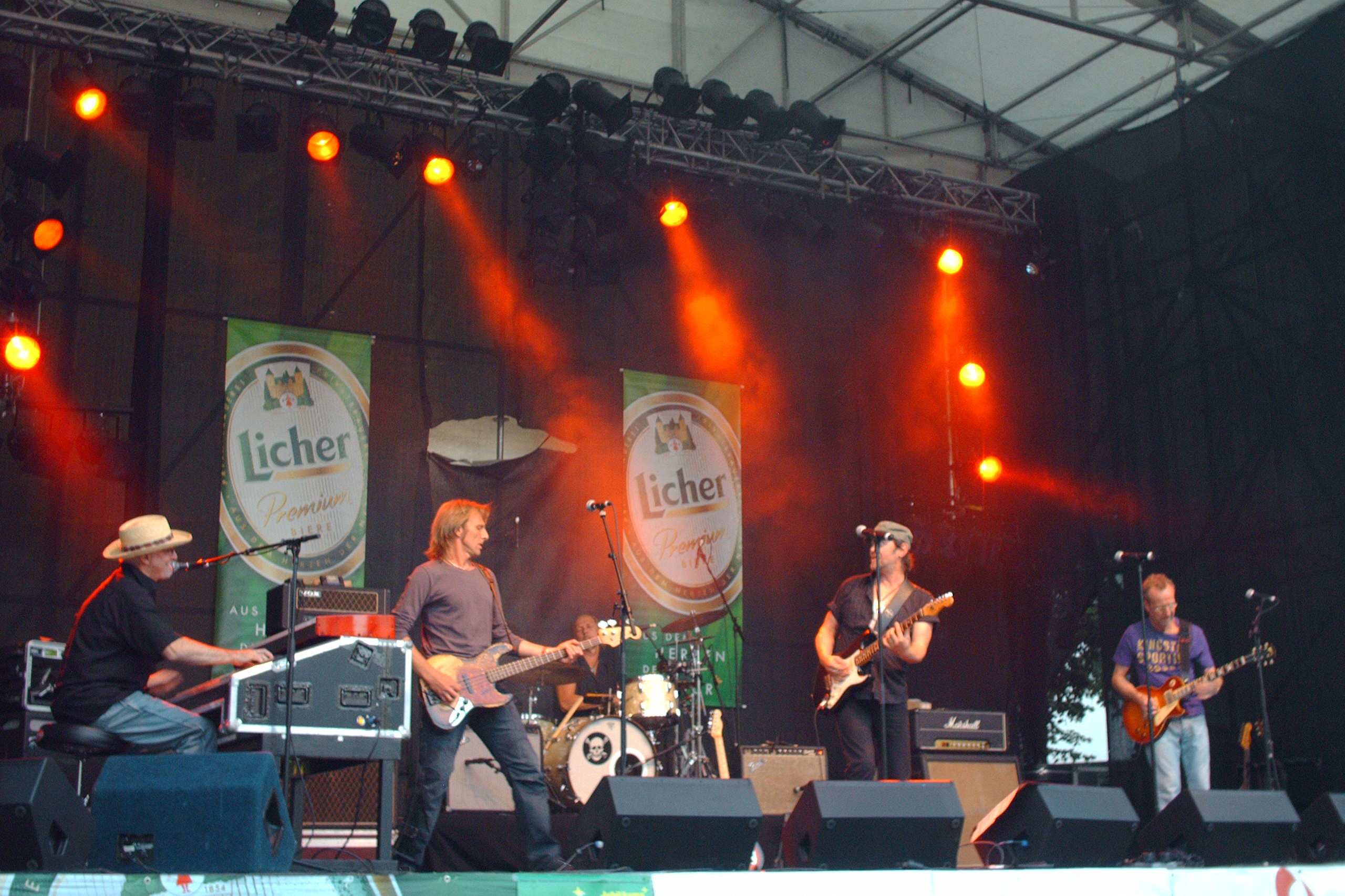 Hamburg Blues Band, Gießen, Germany check usage